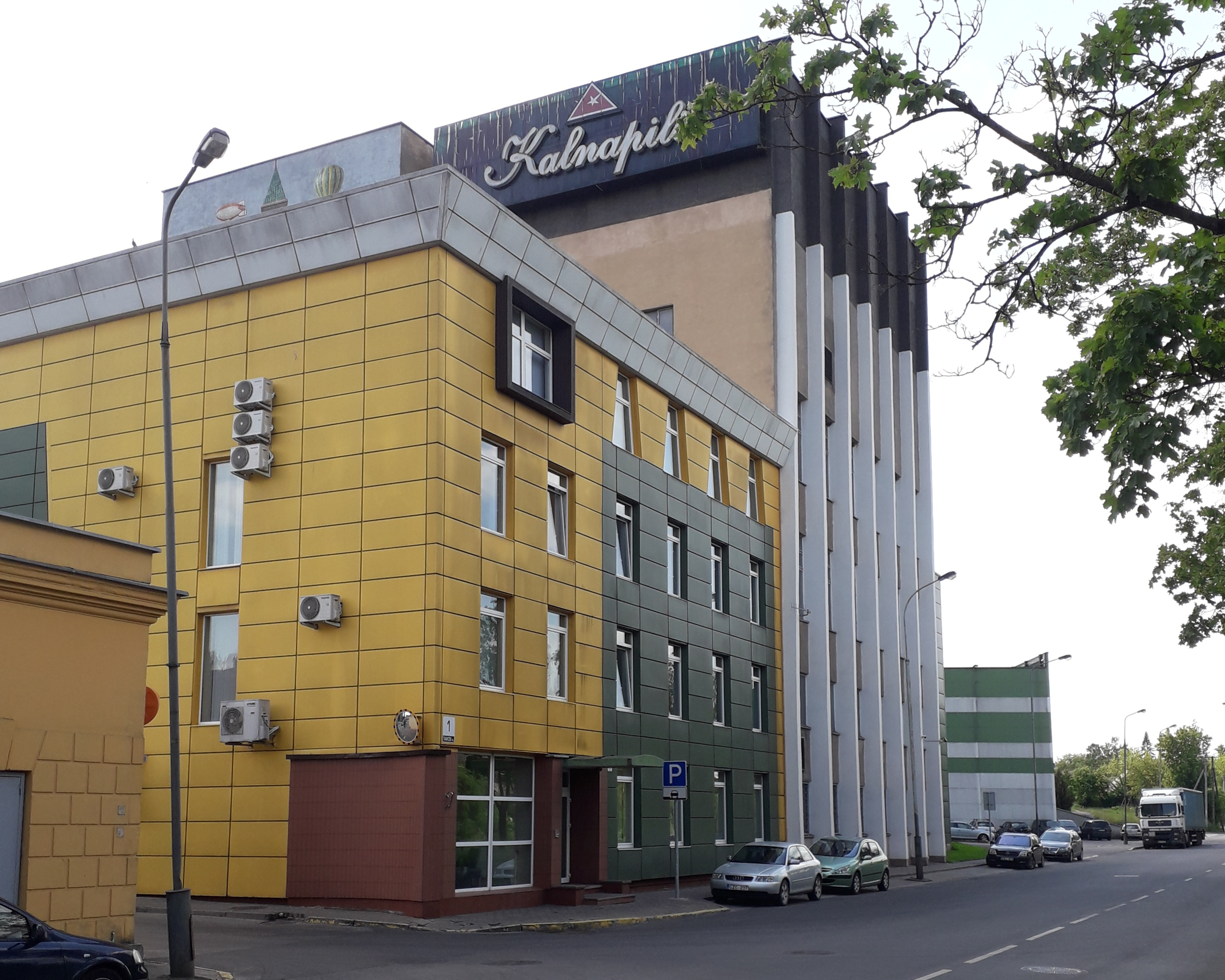 Kalnapilis brewery in Panevėžys, Lithuania